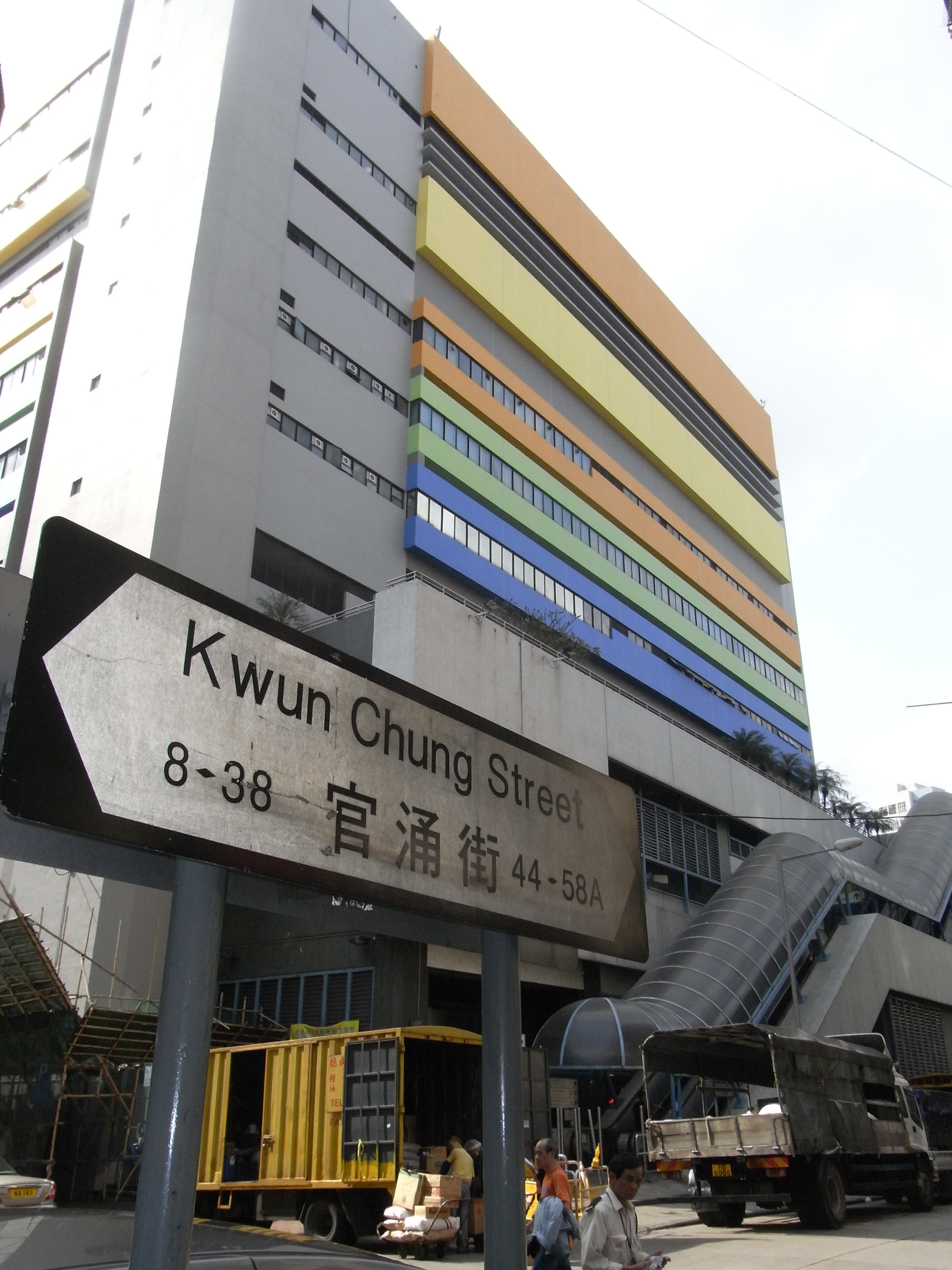 佐敦 官涌市政大廈 官涌街